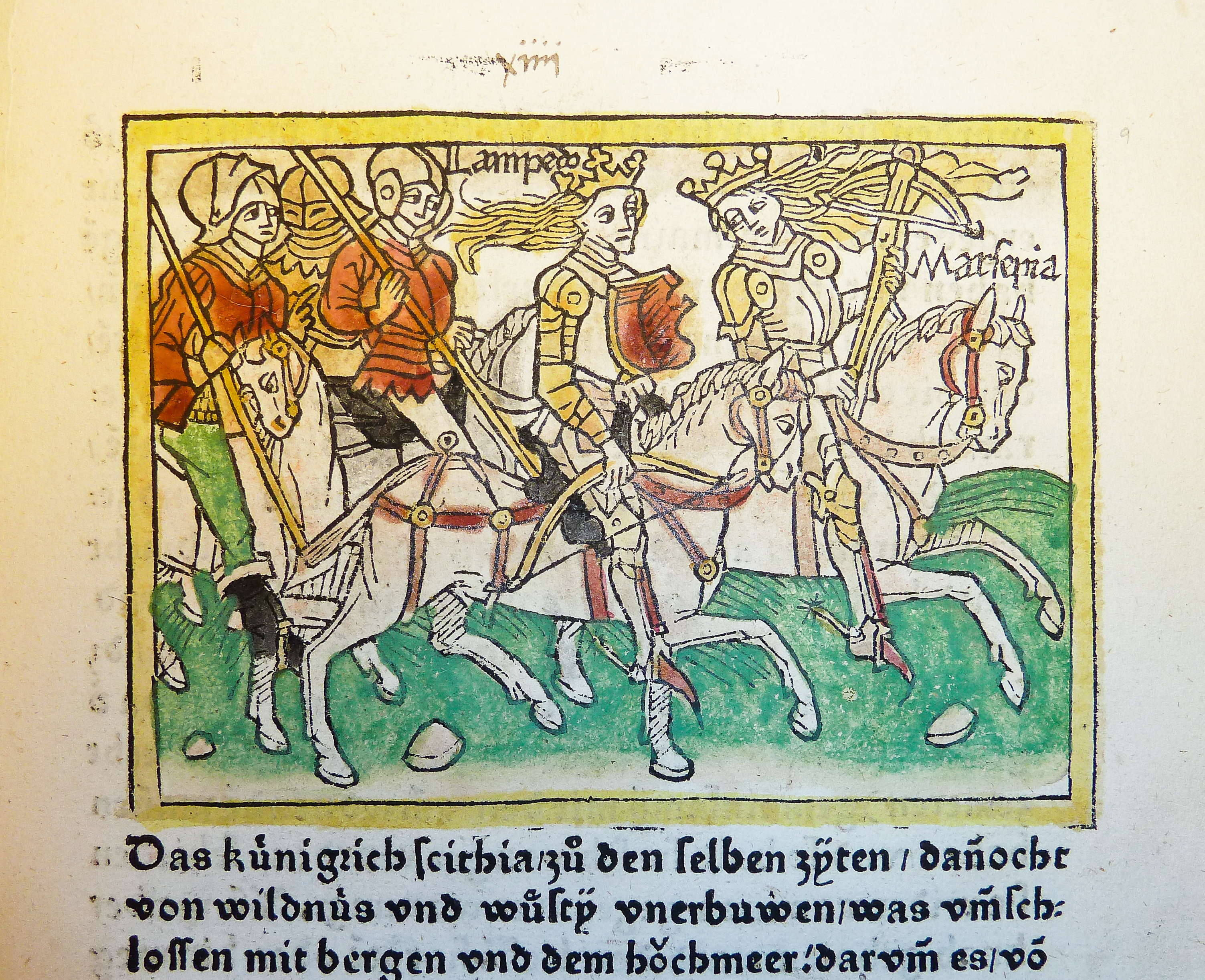 Woodcut illustration (leaf [c]4r, f. [xiiij]) of the Amazons Lampedo and Marpesia, hand-colored in red, green, yellow and black, from an incunable German translation by Heinrich Steinhöwel of Giovanni Boccaccio's De mulieribus claris, printed by Johannes Zainer at Ulm ca. 1474 (cf. ISTC ib00720000). One of 76 woodcut illustrations (1 on leaf [e]8v dated 1473), each 80 x 110 mm., depicting scenes from the life of the women chronicled (for a full list of subjects, cf. W.L. Schreiber, Handbuch der Holz- und Metallschnitte des XV. Jahrhunderts (Nendeln: Kraus Reprints, 1969), no. 3506). "Pour la première moitie le nom se trouve inscrit à côte de la tête de chaque femme, pour le reste il es ajouté entre les deux réglettes. Il n'y en a que trois, qui n'ont qu'un seul trait carré."--Schreiber. Established form: Zainer, Johannes, ‡d d. 1541?. Established form: Amazons. Penn Libraries call number: Inc B-720 All images from this book Penn Libraries catalog record